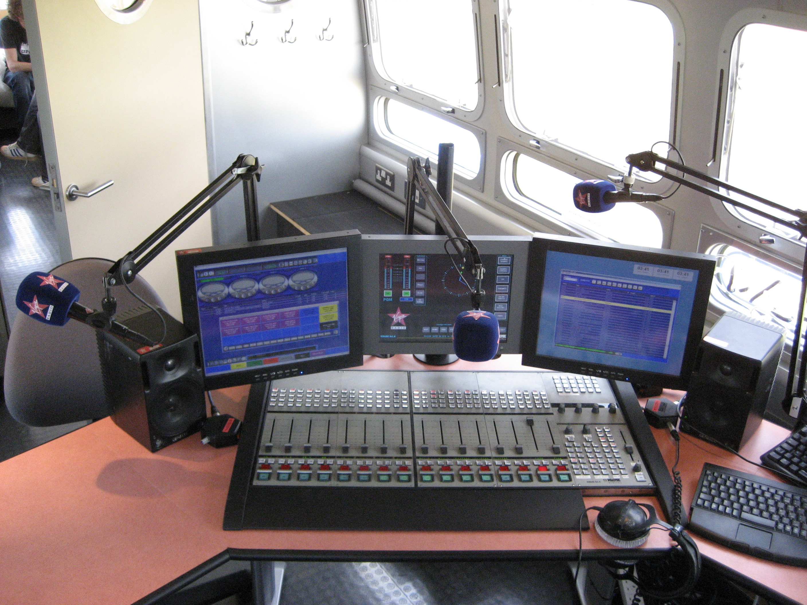 Inside the Virgin Radio Airstream studio